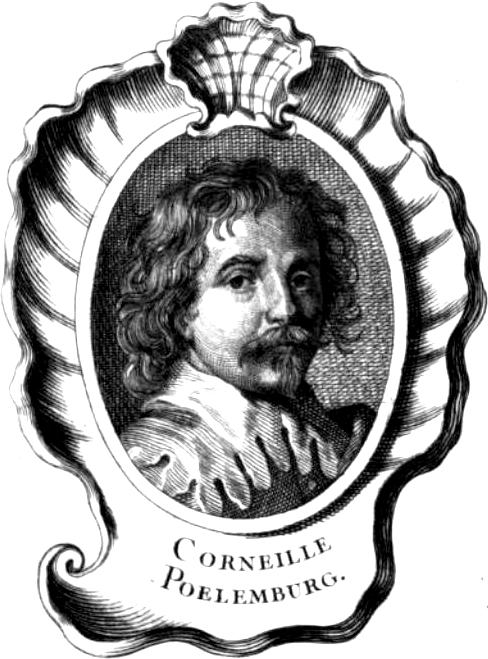 Portrait of Cornelis van Poelenburgh (1594/1595-1667), Dutch painter